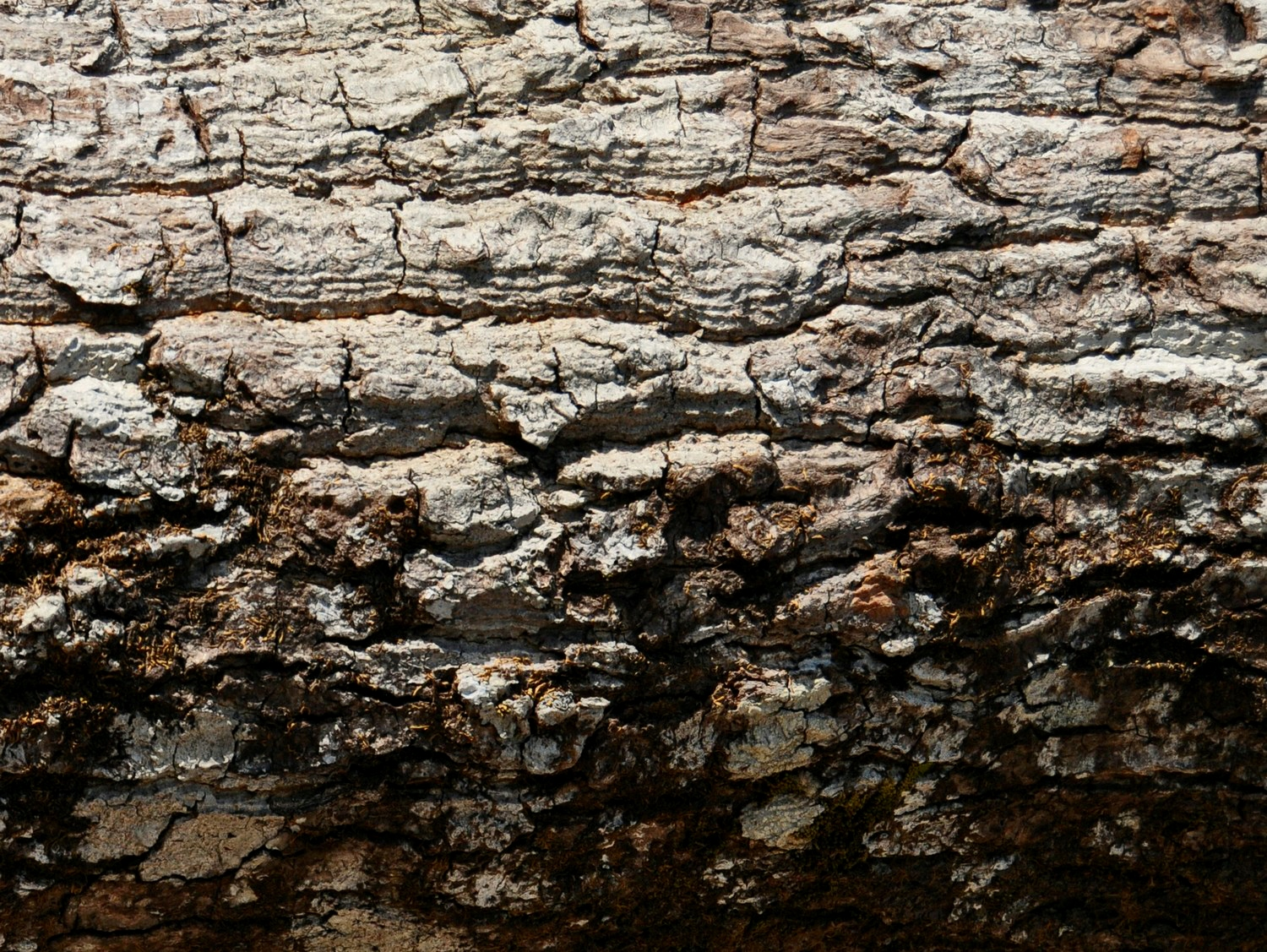 Schima wallichii, bark. From Ketapang, West Kalimantan, Indonesia.